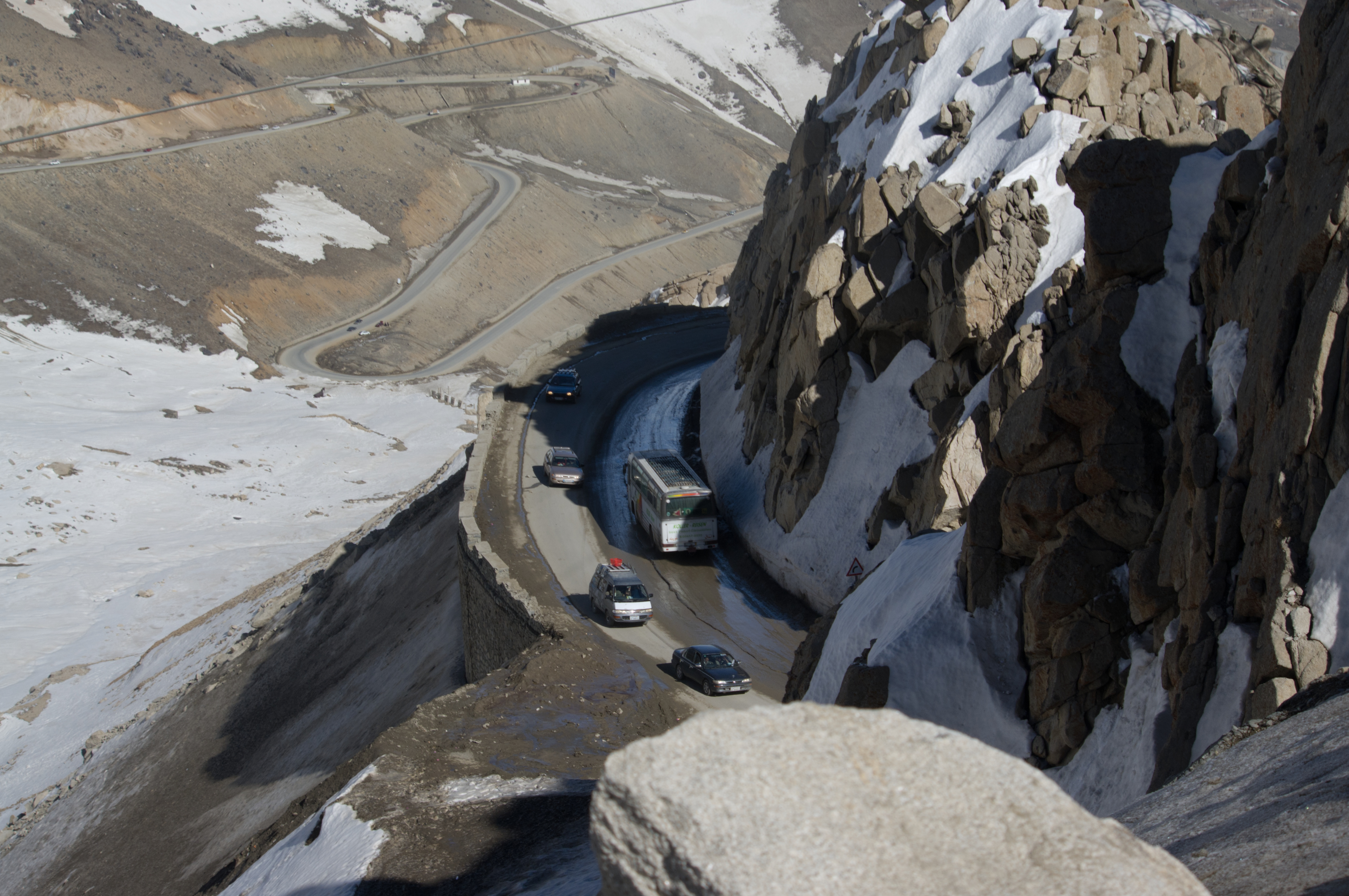 Road in the Salang Pass